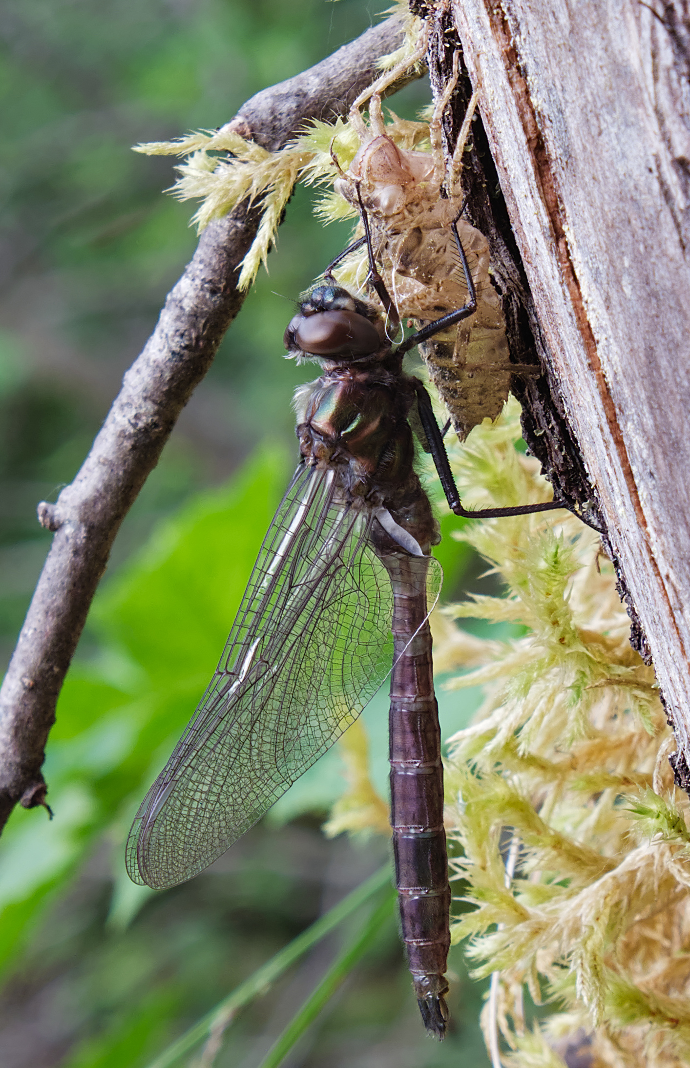 Male Somatochlora albicincta (ringed emerald) emerging from the nymph stage near Isaac Lake in Bowron Lake Provincial Park, BC